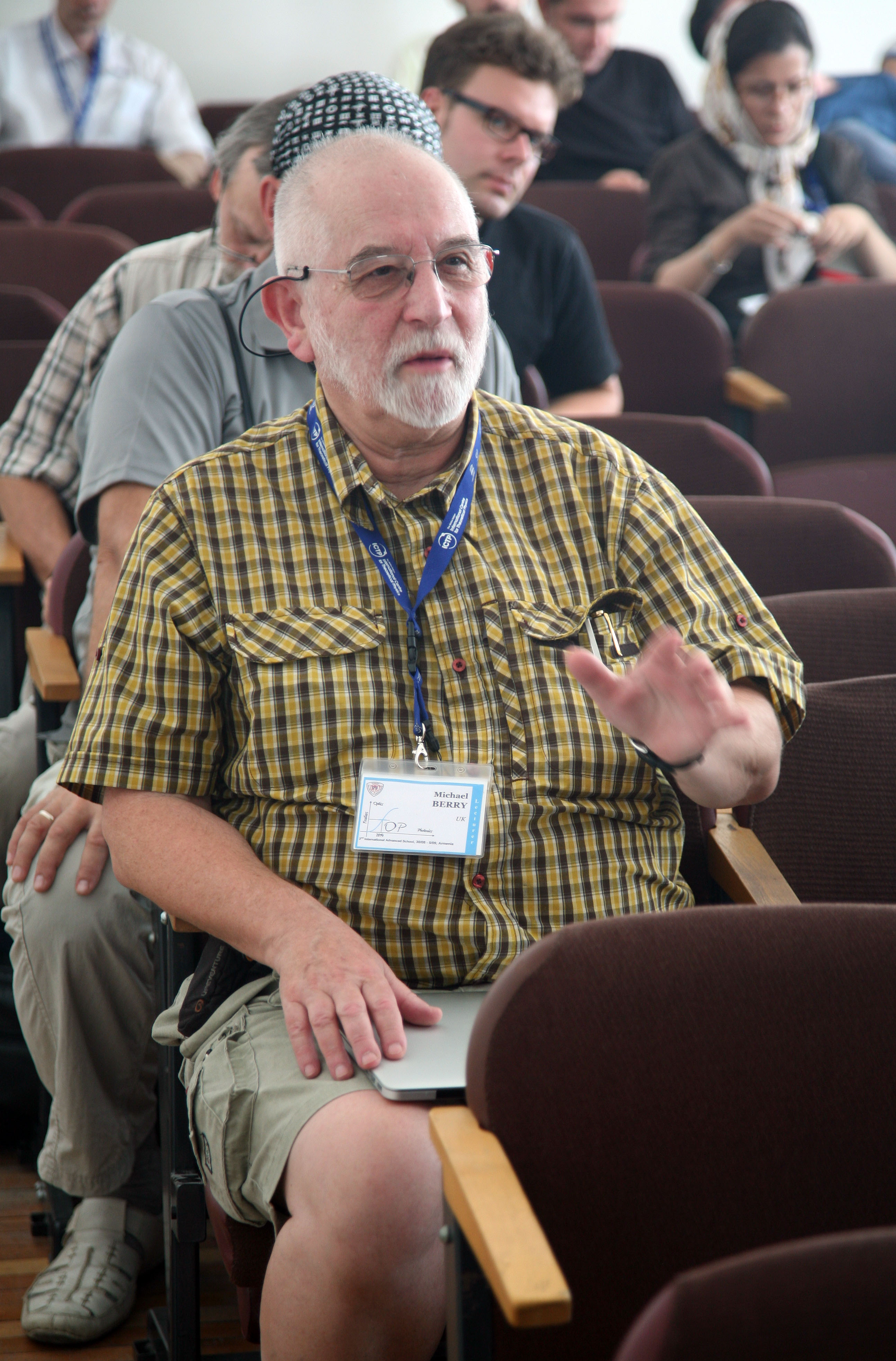 Michael Berry (physicist), Ashtarak - Yerevan, Armenia, FOP-2014, 03.09.2014 2nd International Advanced School on Frontiers in Optics & Photonics FOP-2014, 30 August - 5 September, 2014, Yerevan - Ashtarak, Armenia